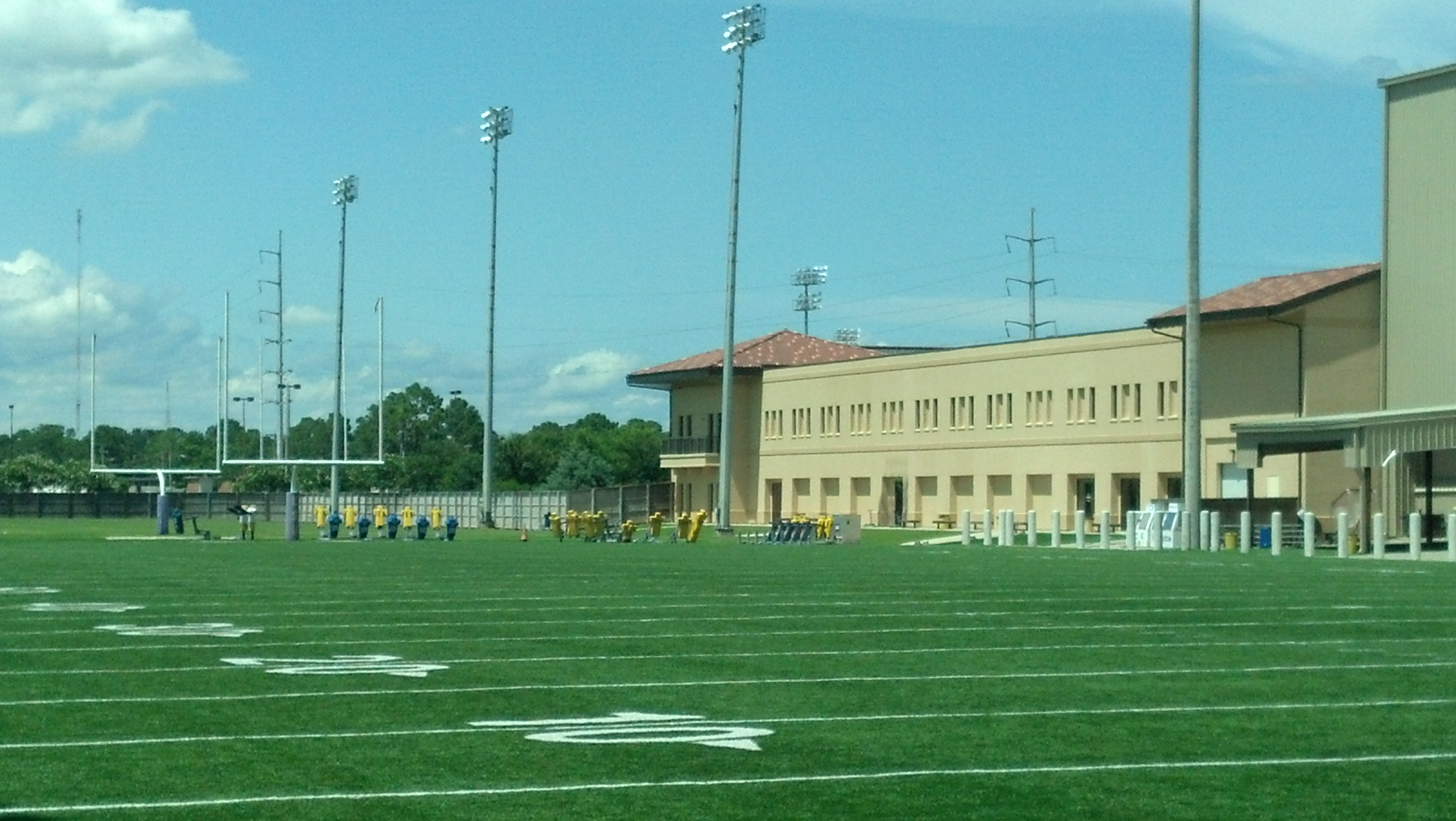 LSU Football Operations Center and Outdoor Practice Football Fields